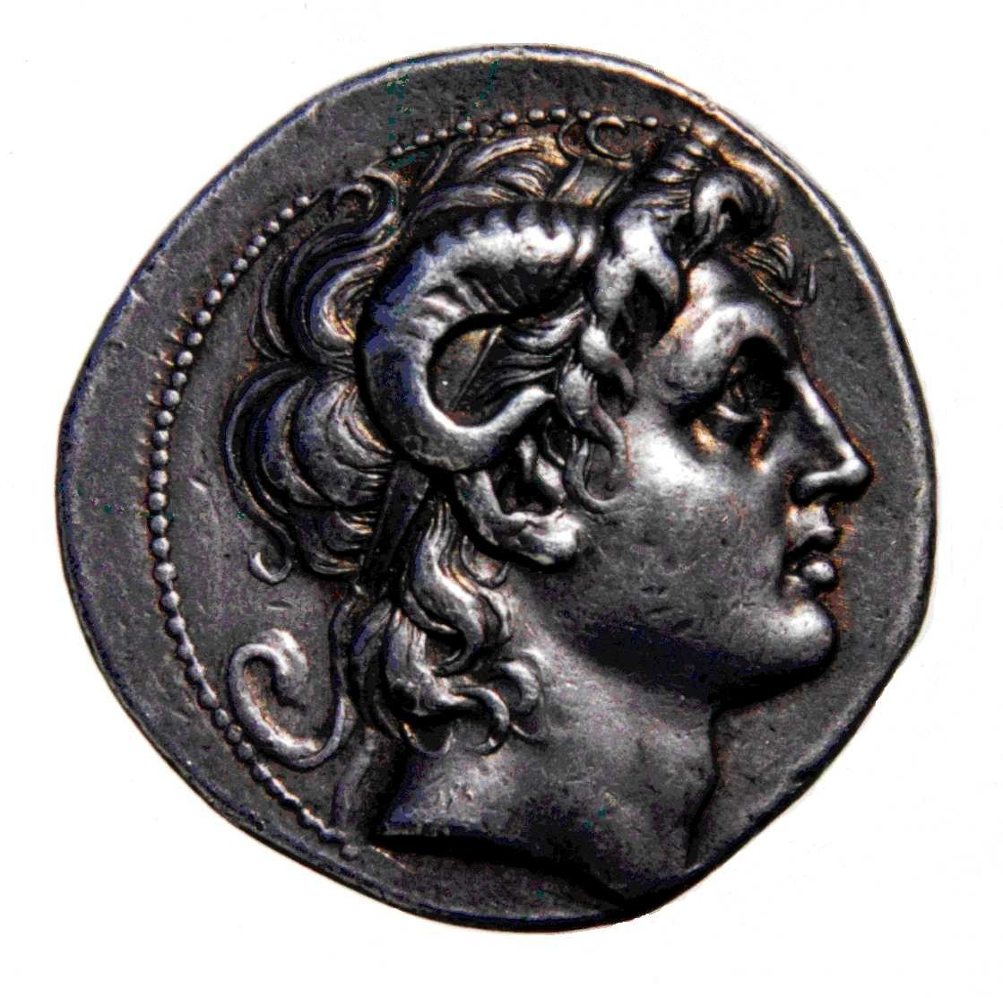 Silver tetradrachm issued in the name of Alexander III of Macedonia (Alexander the Great). Arados, 242/241 BC (posthumous issue). British Museum, London, UK.